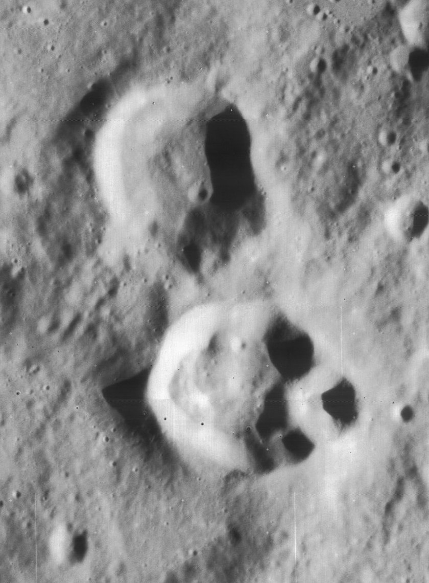 Epimenides (top) and Epimenides S crater (bottom), on the moon. North is to upper right.